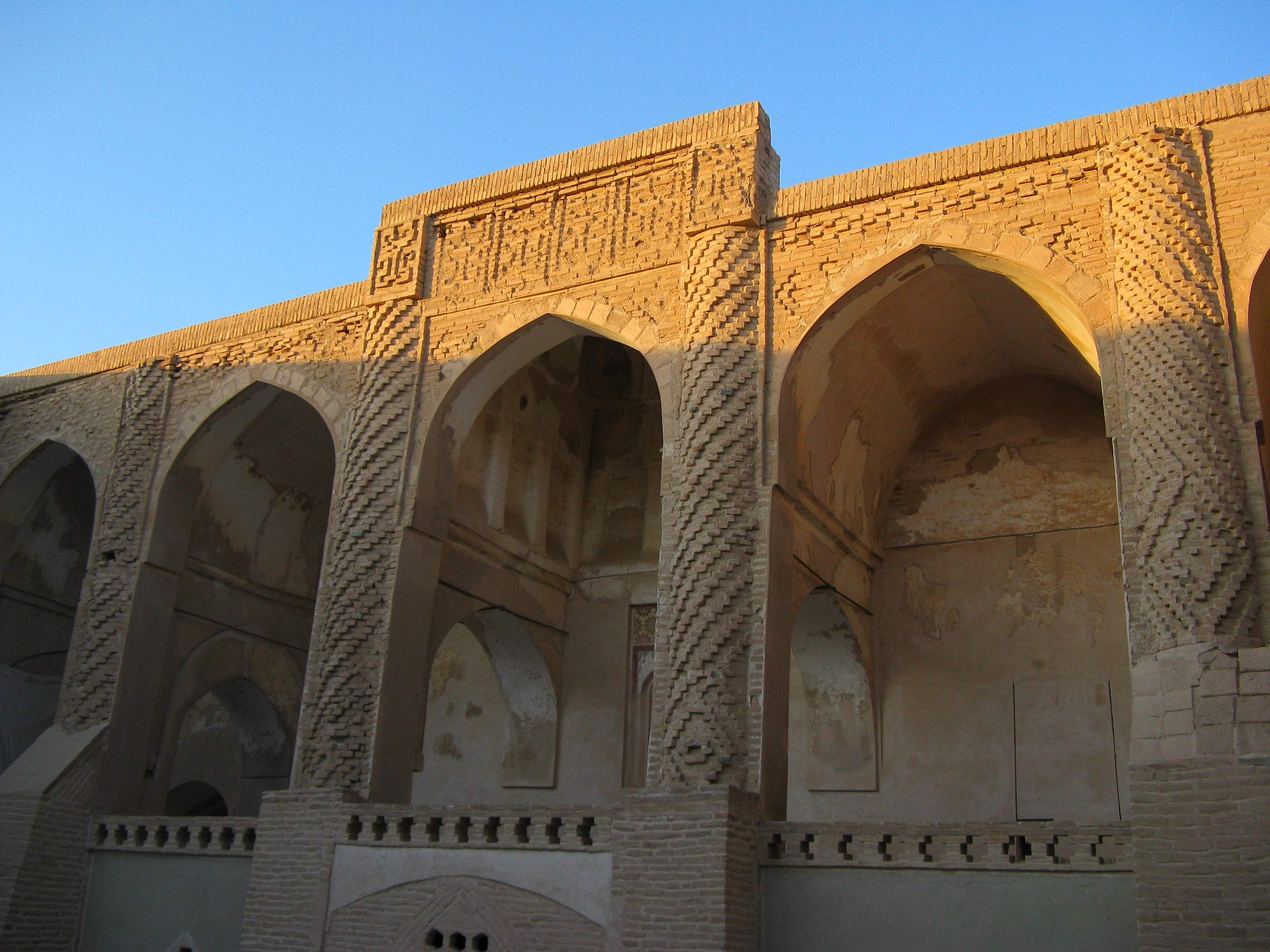 Na'in Jame' mosque yard